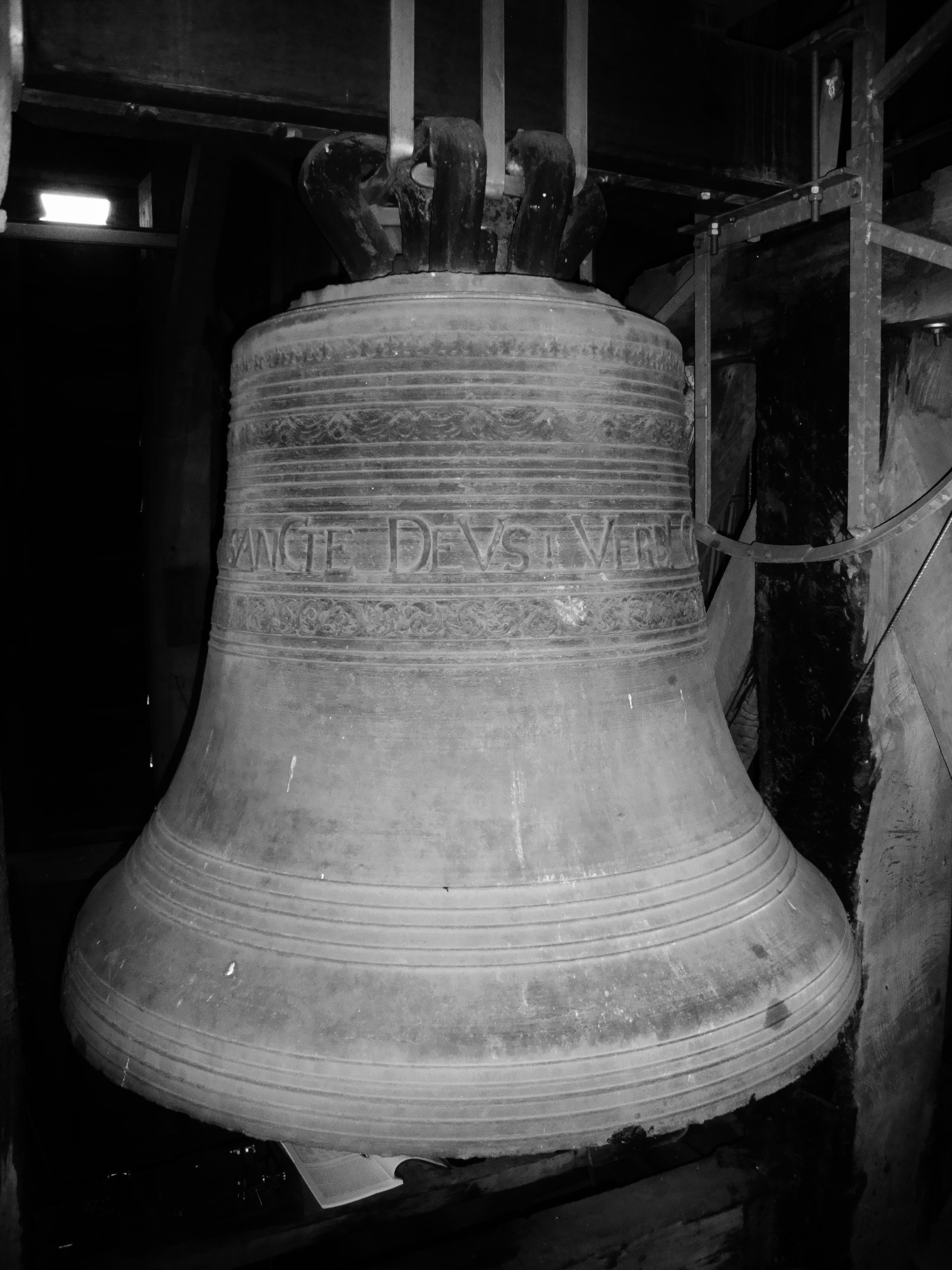 Soest, prot. parish church St Peter's: Baker's bell from 1711.